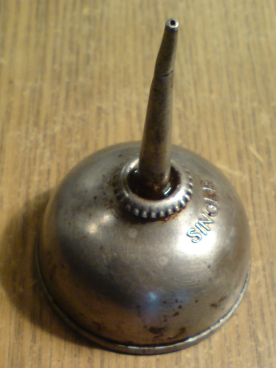 small oil application device for Singer sewnig machine